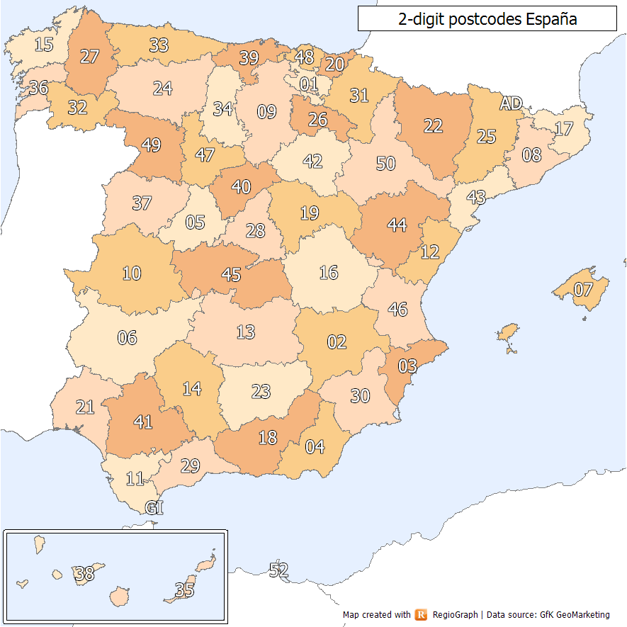 2-digit postcode areas Spain (defined through the first two postcode digits).